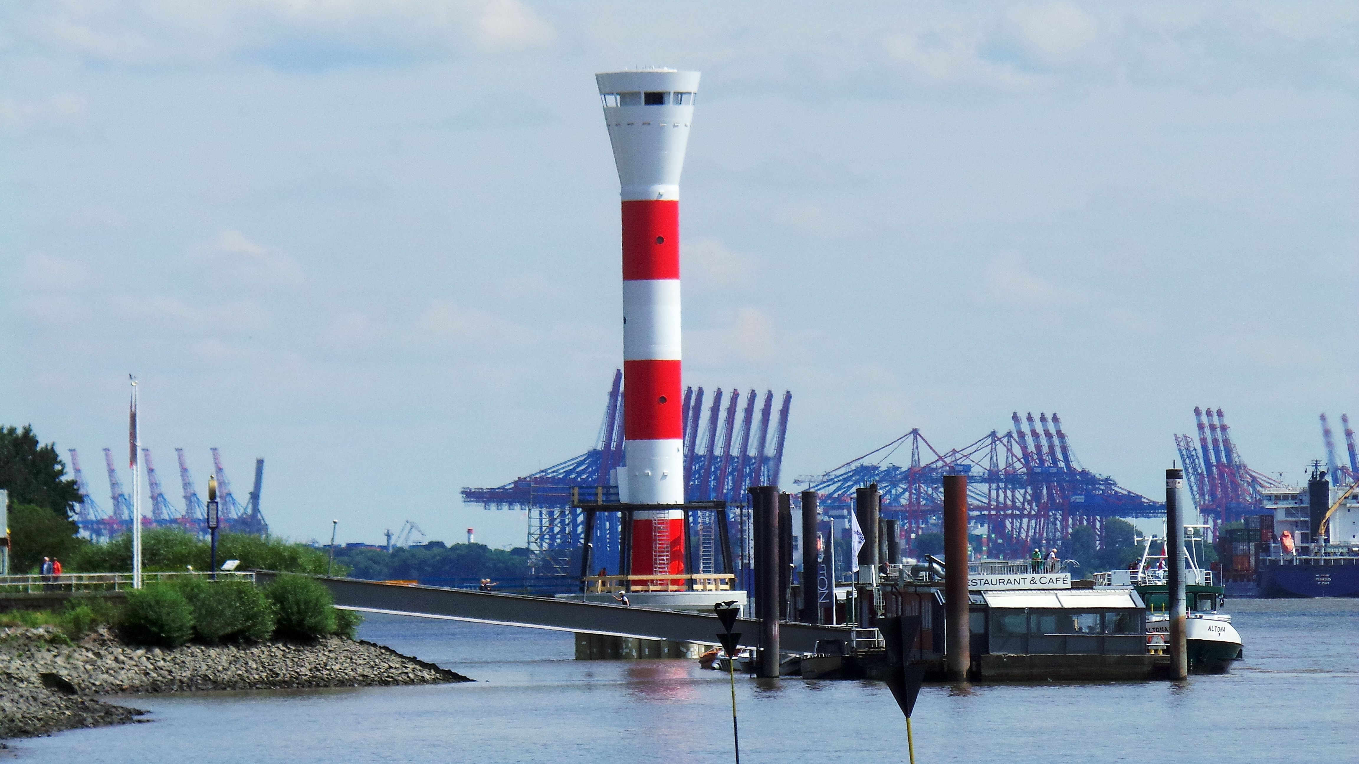 Blankenese Unterfeuer